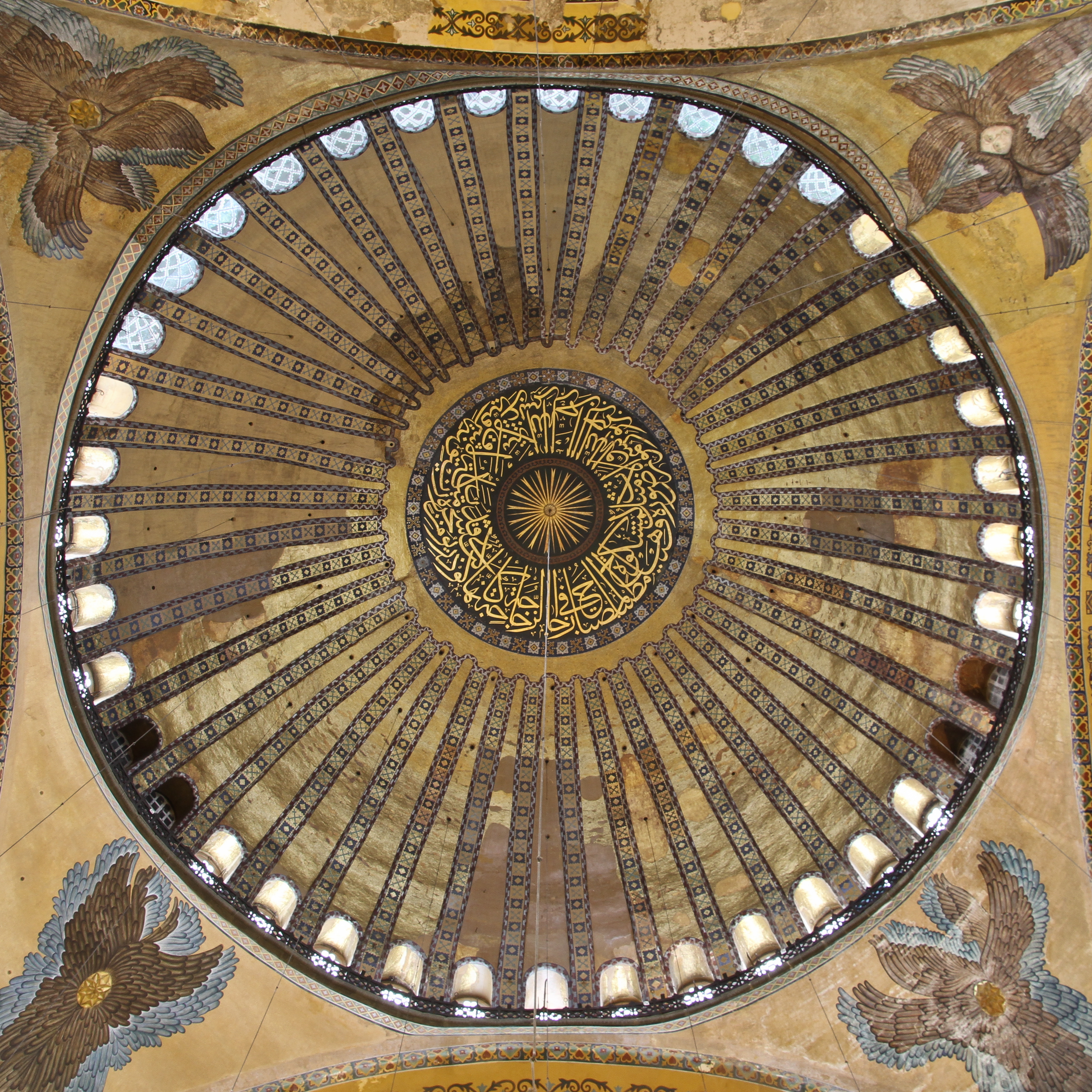 The cupola of Hagia Sophia, in Istanbul.